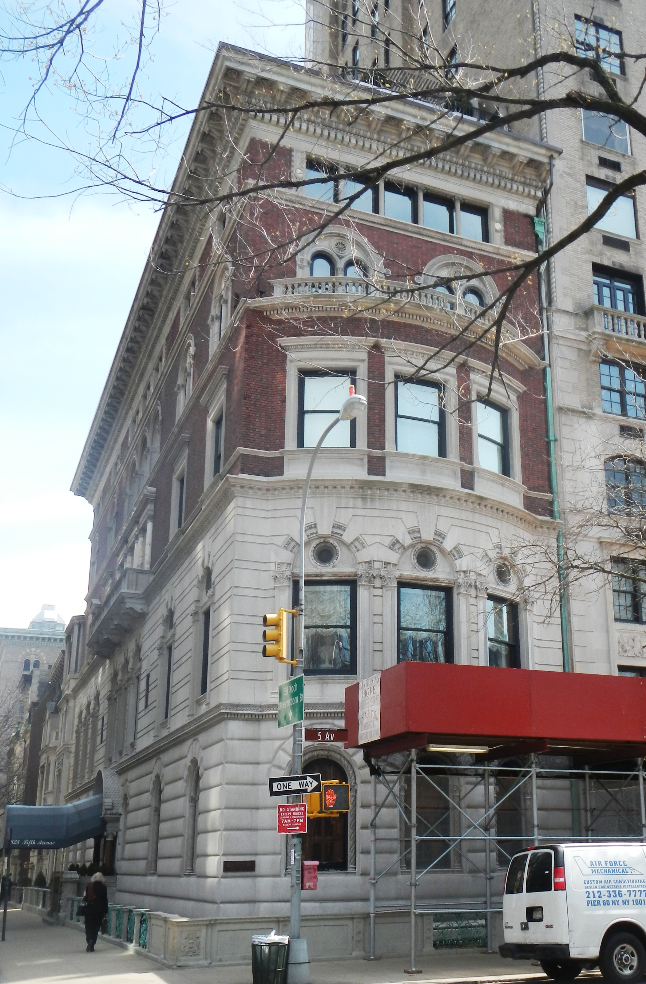 Looking southeast across 5th Avenue on a partly sunny midday.